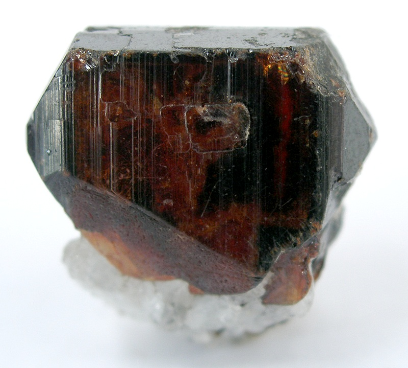 Manganotantalite Locality: Shigar Valley, Skardu District, Baltistan, Northern Areas, Pakistan (Locality at ) Size: thumbnail, 1.4 x 1.4 x 1.3 cm Manganotantalite A beautiful, complete crystal with distinctive red color, more than usual in fact; and nicely beveled edges. Ex. Laura and Stevia Thompson Collection.